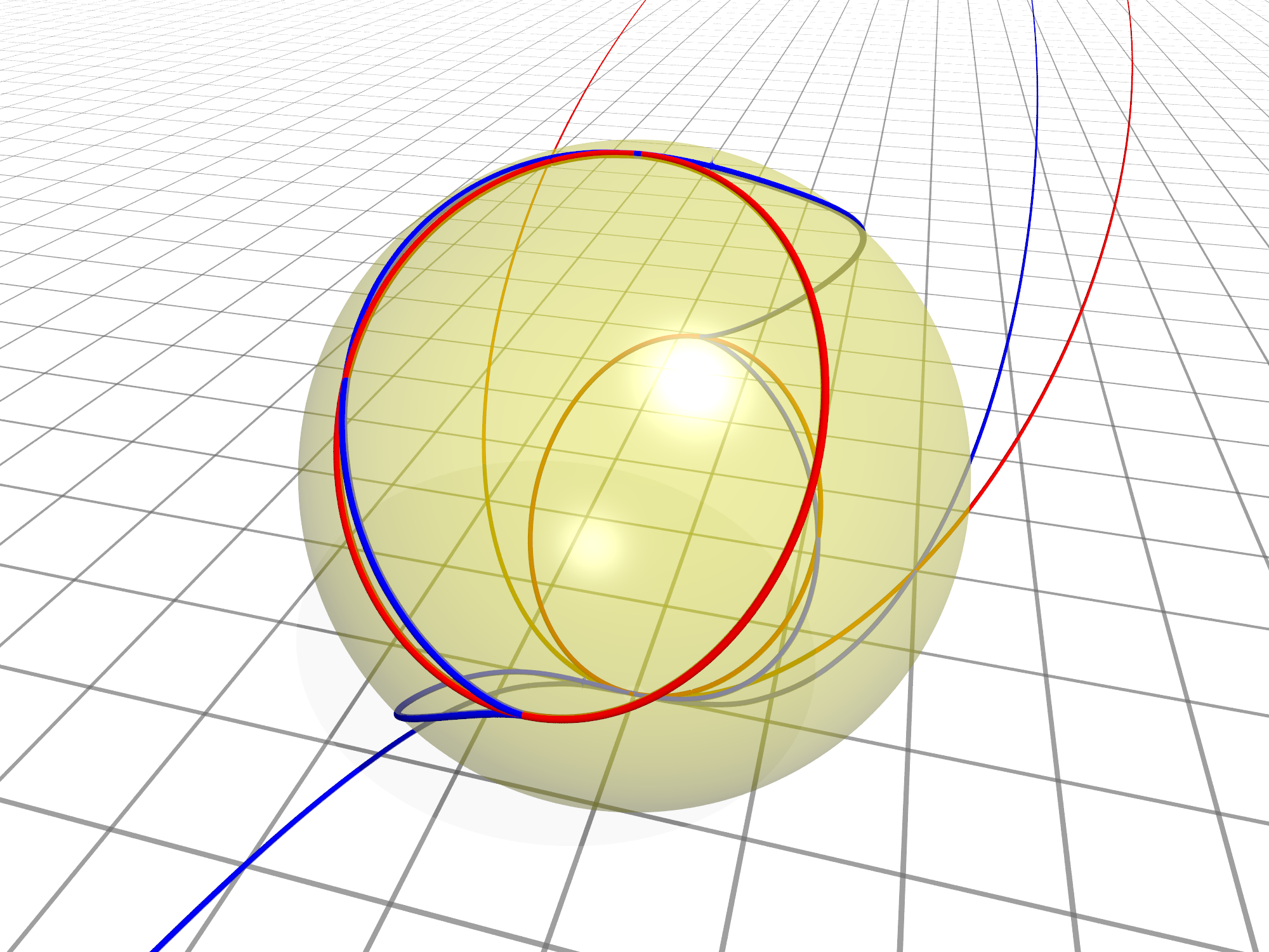 y=x2 & y=x3 projected on RP2 mapped onto a sphere. Is basically a ray traced version of File:Parabola_in_projective_space.svg which superseded File:Parabola_in_projective_space.png by being an SVG, and by correctly including both parts of the mapping of y=x2. I used two of Friedrich A. Lohmüller's files at as a template and an include, in order to match the following illustrations by Jean-Christophe BENOIST